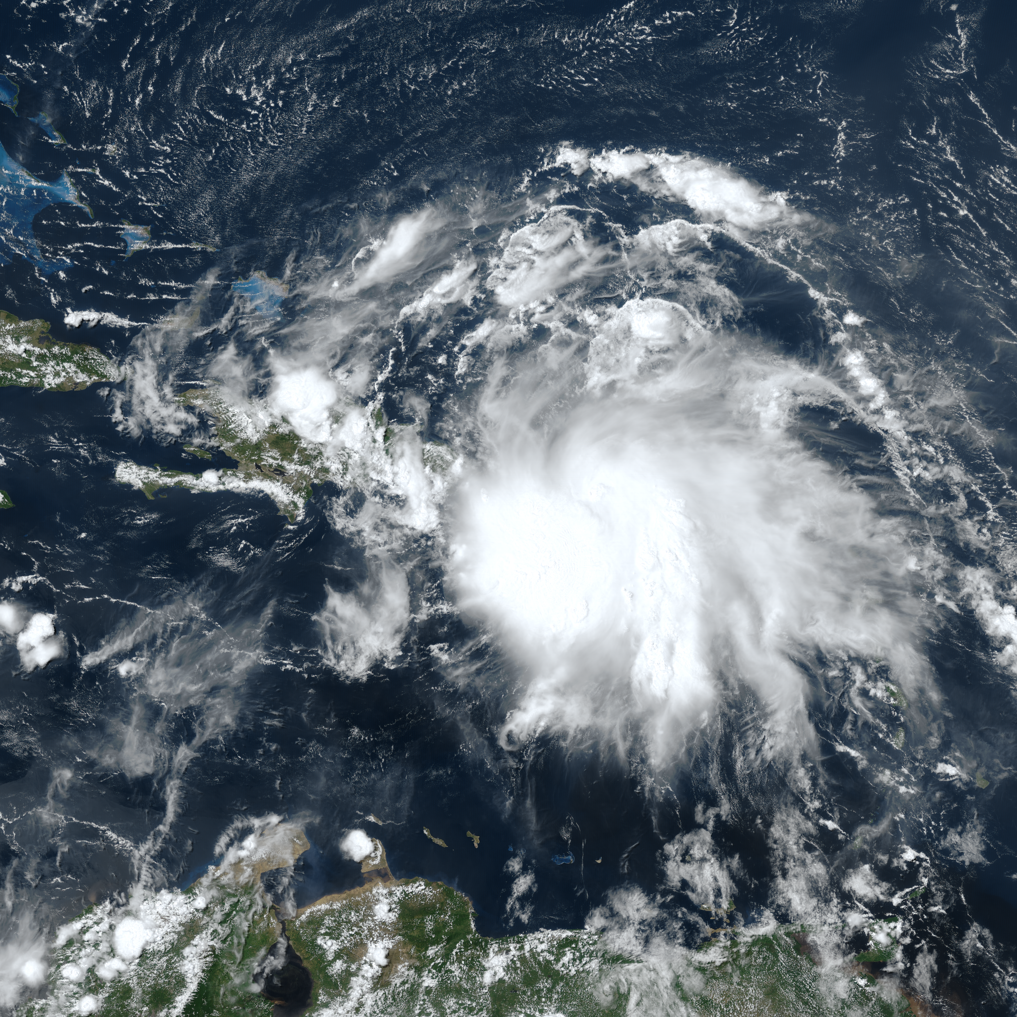 Tropical Storm Laura on August 22, 2020